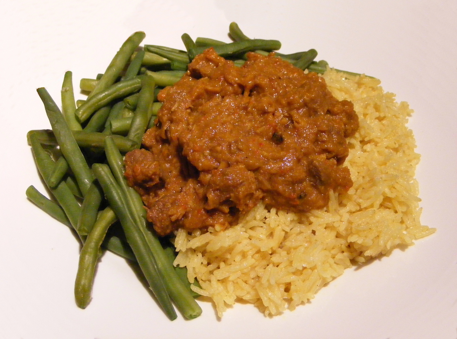 Beef Rendag Make a boemboe/paste in the blender from: 1 red onion, chopped 4 cloves of garlic, chopped 5 red chilies (deseeded) chopped 1/2 t kurkuma 1 t laos (I didn't have this fresh) 4 roasted kemiri-nuts (candlenut) 5 cm ginger, chopped 2 stalks lemongrass, finely chopped Take 1 can of coconutmilk, add the boemboe/paste and add: 2 leaves salaam (indonesian bay leaf) 2 lime leaves salt (30 gr toasted coconutflakes if you like) Bring to the boil and add 500 gram lean beef. Depending on the meat you use, simmer until the meat is tender and the sauce is thick and sticky. (It took me 4 hours) Add salt or sambal oelek if needed. Serve with nasi kuning and green beans.